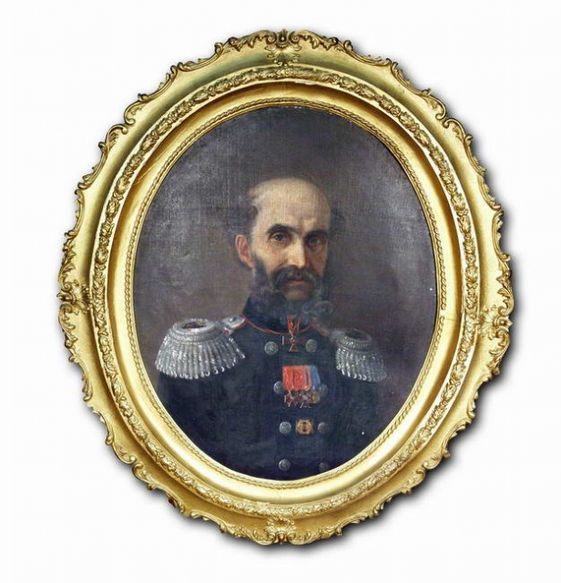 Portrait of Stepan Onisimovich Burachek (1800-1877) Saint Petersburg, Primorskaya regional art gallery, Vladivostok